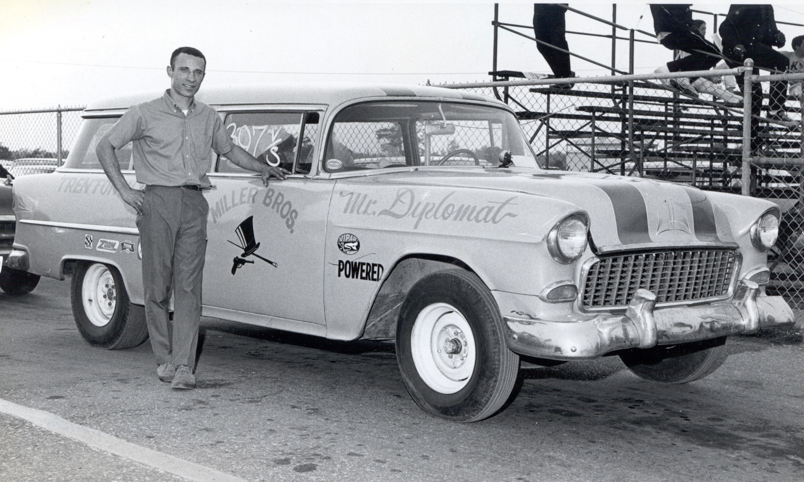 African American auto racing pioneer Ken Wright with the Miller Brothers 1955 Chevy station wagon drag racer, Mr. Diplomat, in 1970 at Atco Dragway in Atco, New Jersey.